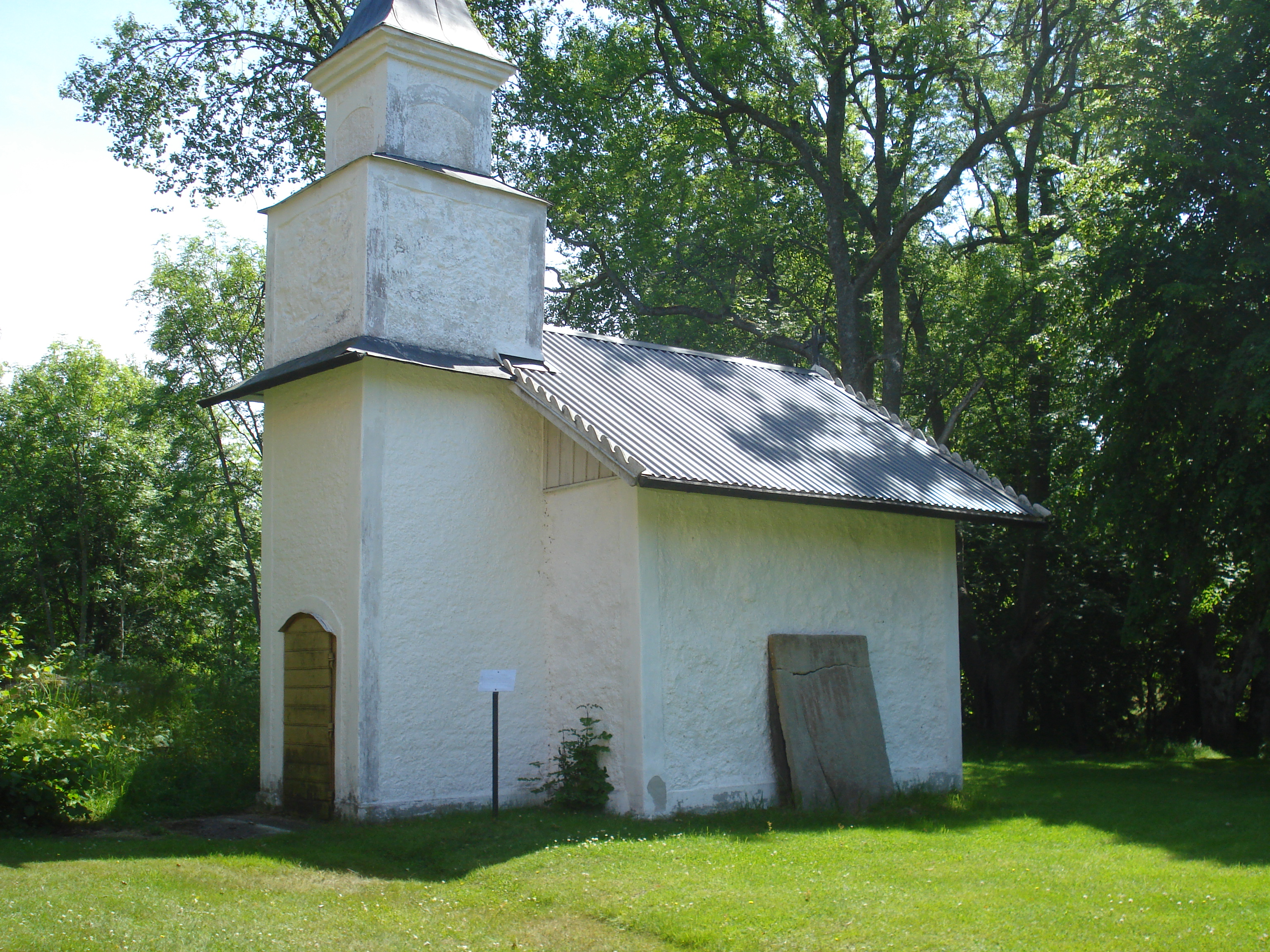 Johan Rosirs grave